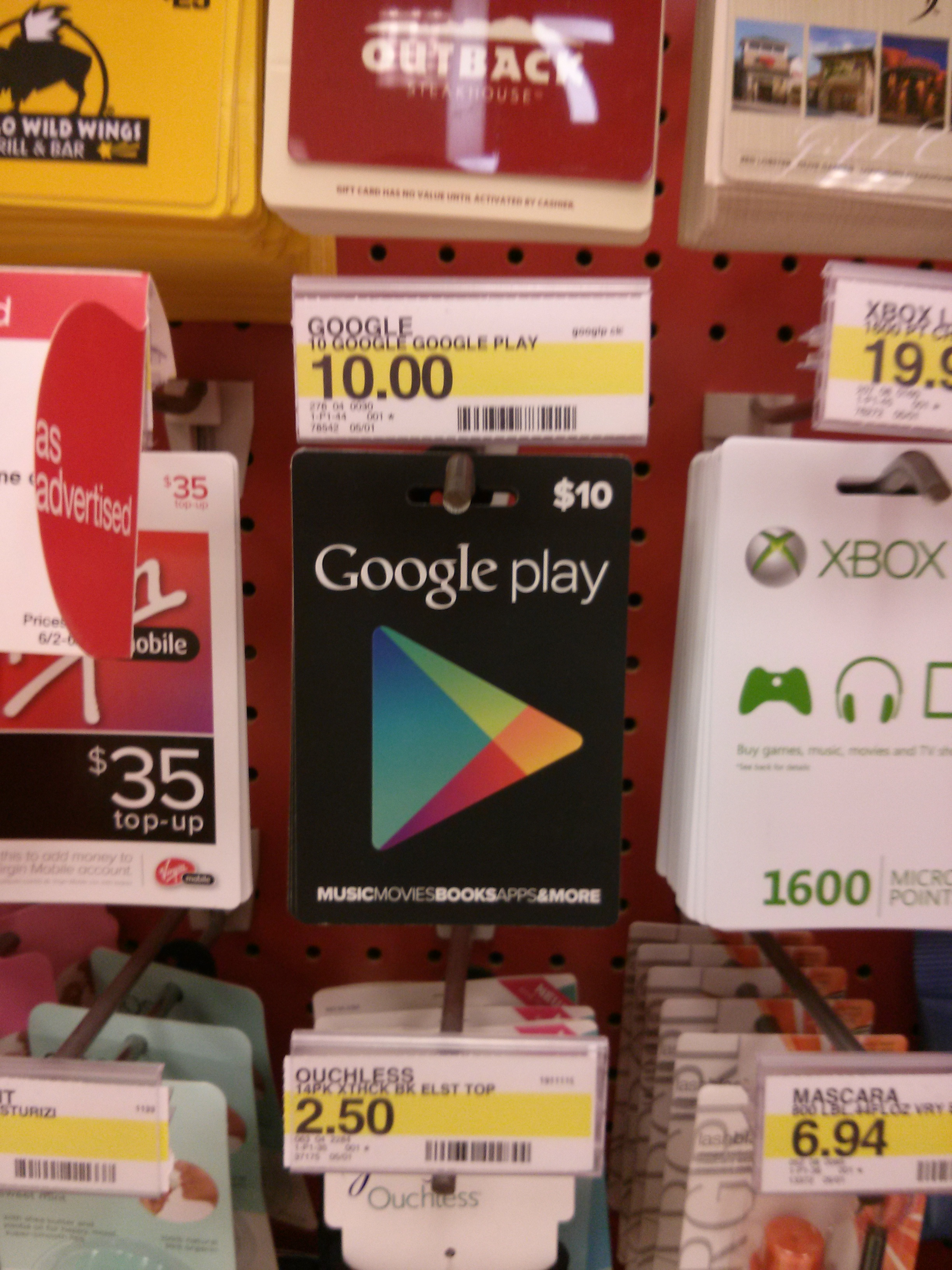 in a Target in Colorado Springs